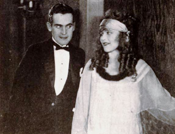 Still from the American comedy short film Up in Betty's Bedroom (1920) with Jay Belasco and Charlotte Merriam, on page 78 of the October 30, 1920 Exhibitors Herald. The caption indicates that the film was directed by Reggie Morris. The title is not listed in the IMDB but is listed in the listing of silent films.